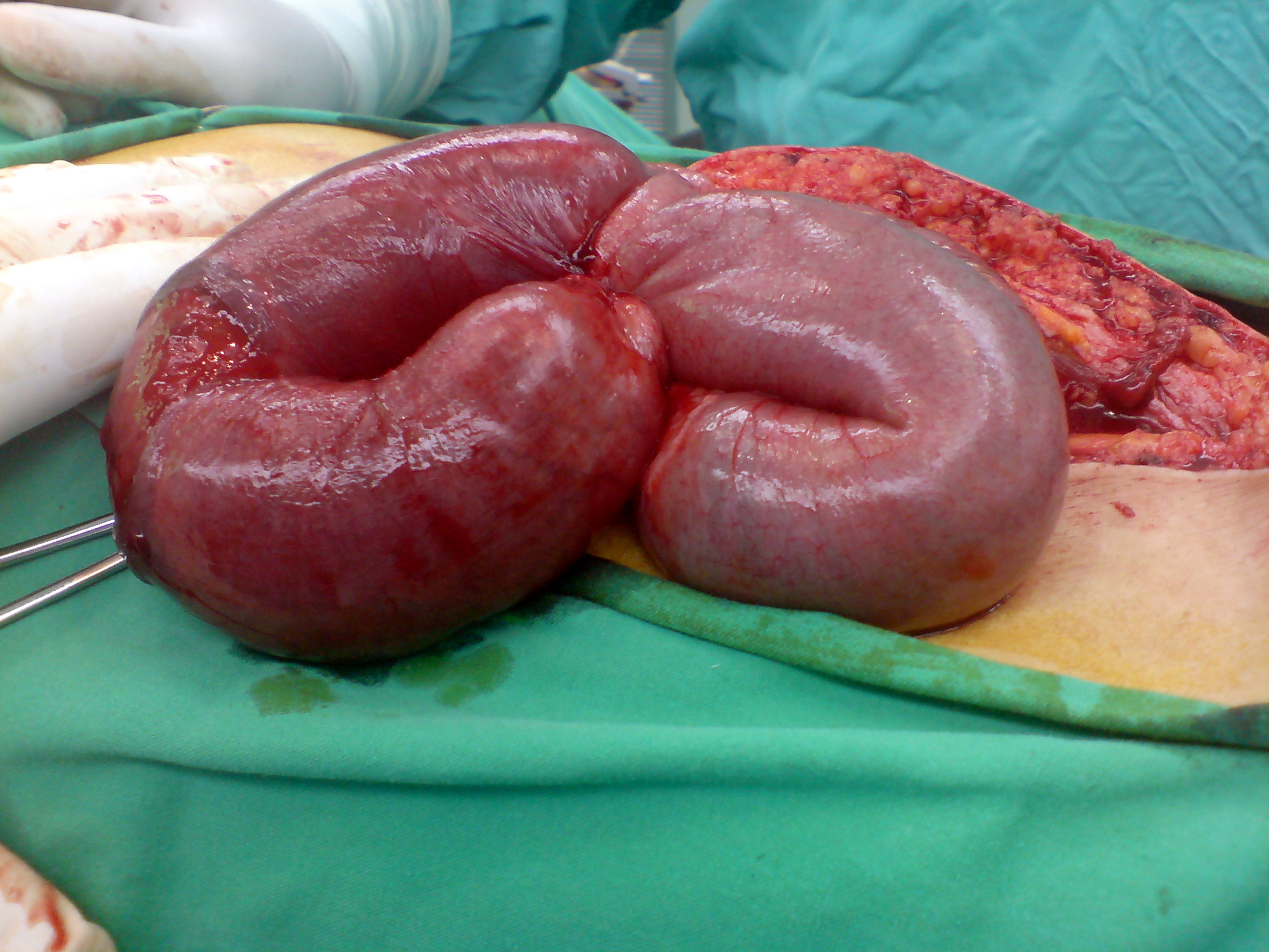 Close loop Small bowel obstruction in 30 years old lady has history of appendectomy 8 years ago